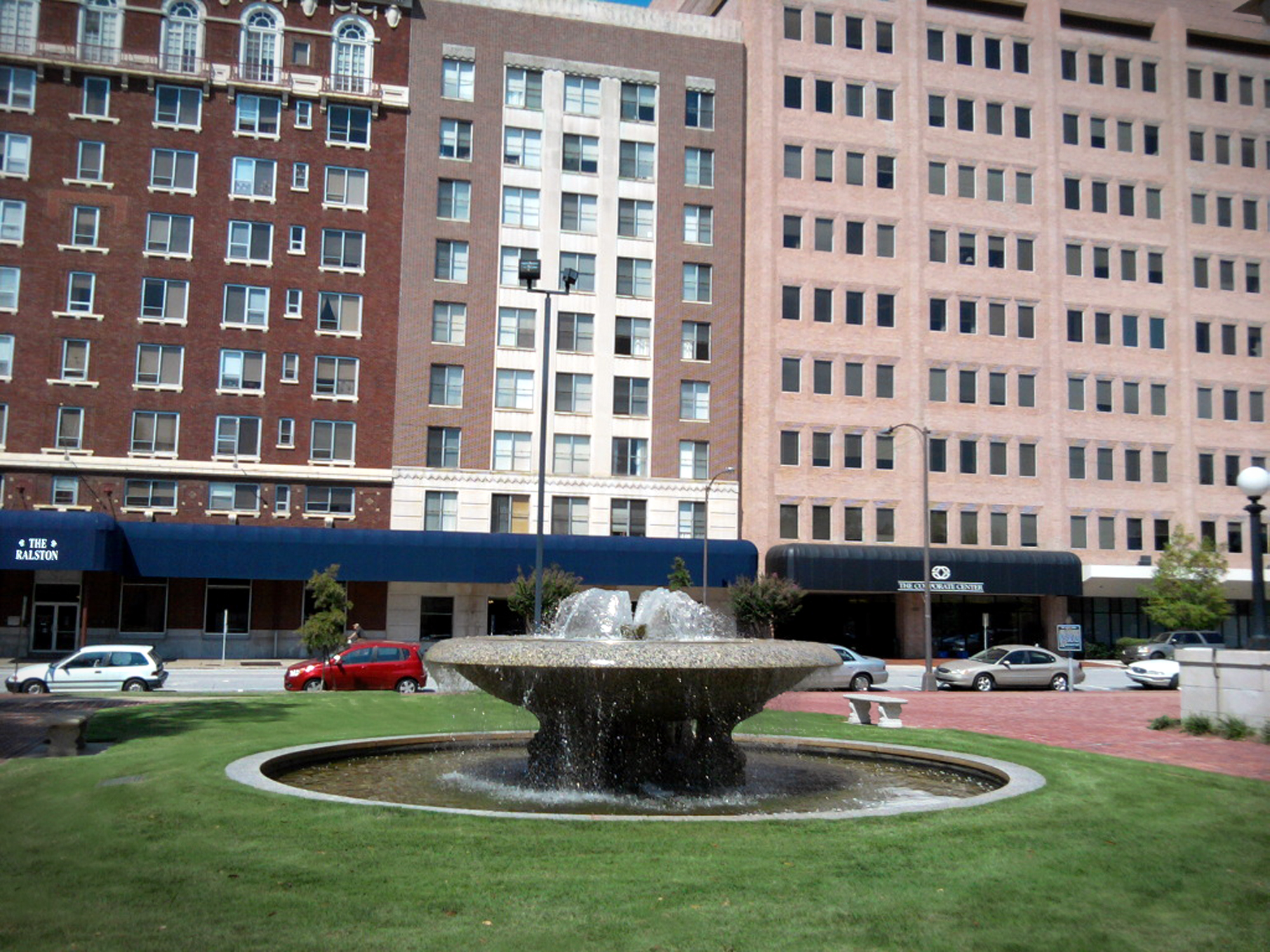 12th Street Downtown Columbus Georgia U.S.A. Background: The Ralston and Corporate Center. Foreground: First Baptist Church Fountain